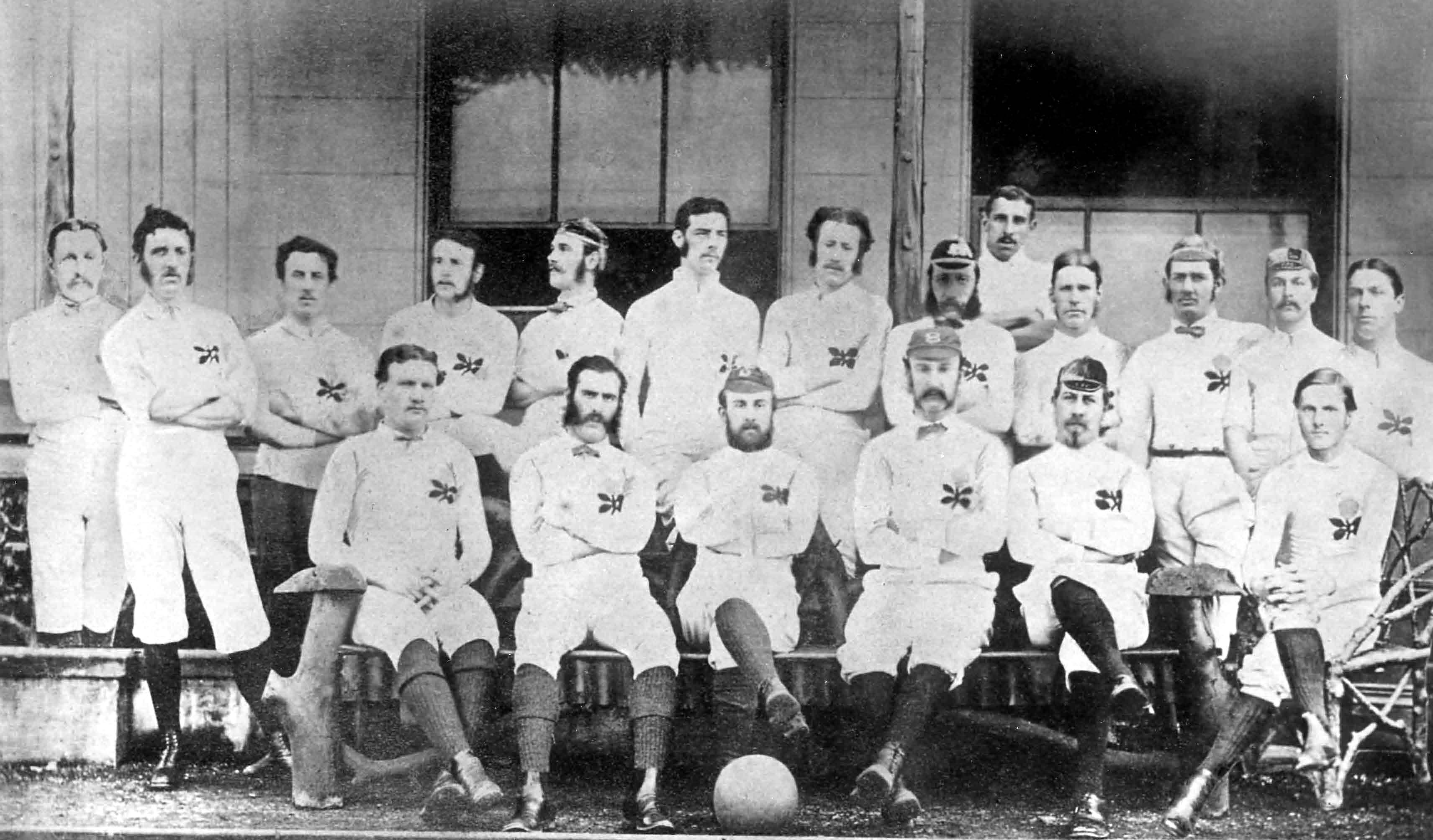 Rugby union team of England that played Scotland at The Oval, London. It was the 2nd match between both teams.